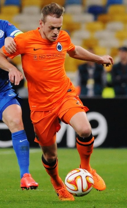 Laurens De Bock